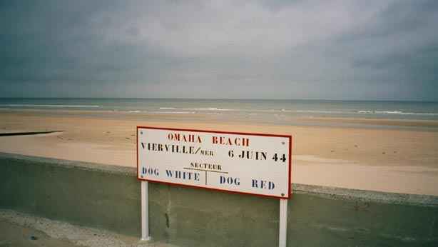 Sign in front of Vierville-sur-mer part of france, Omaha Beach, Normandy region